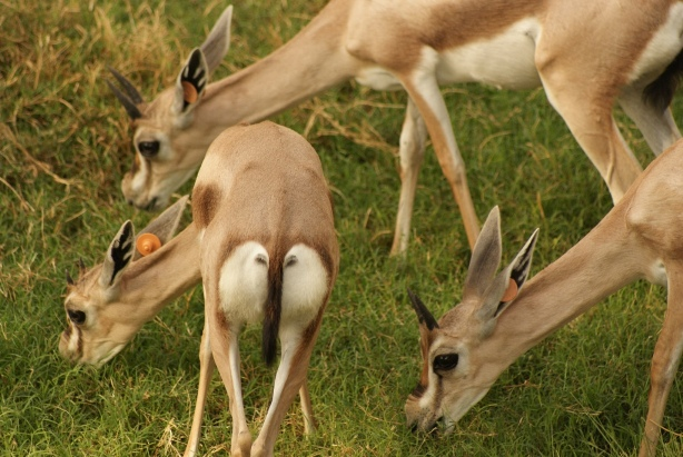 Deer at Al Ain Zoo